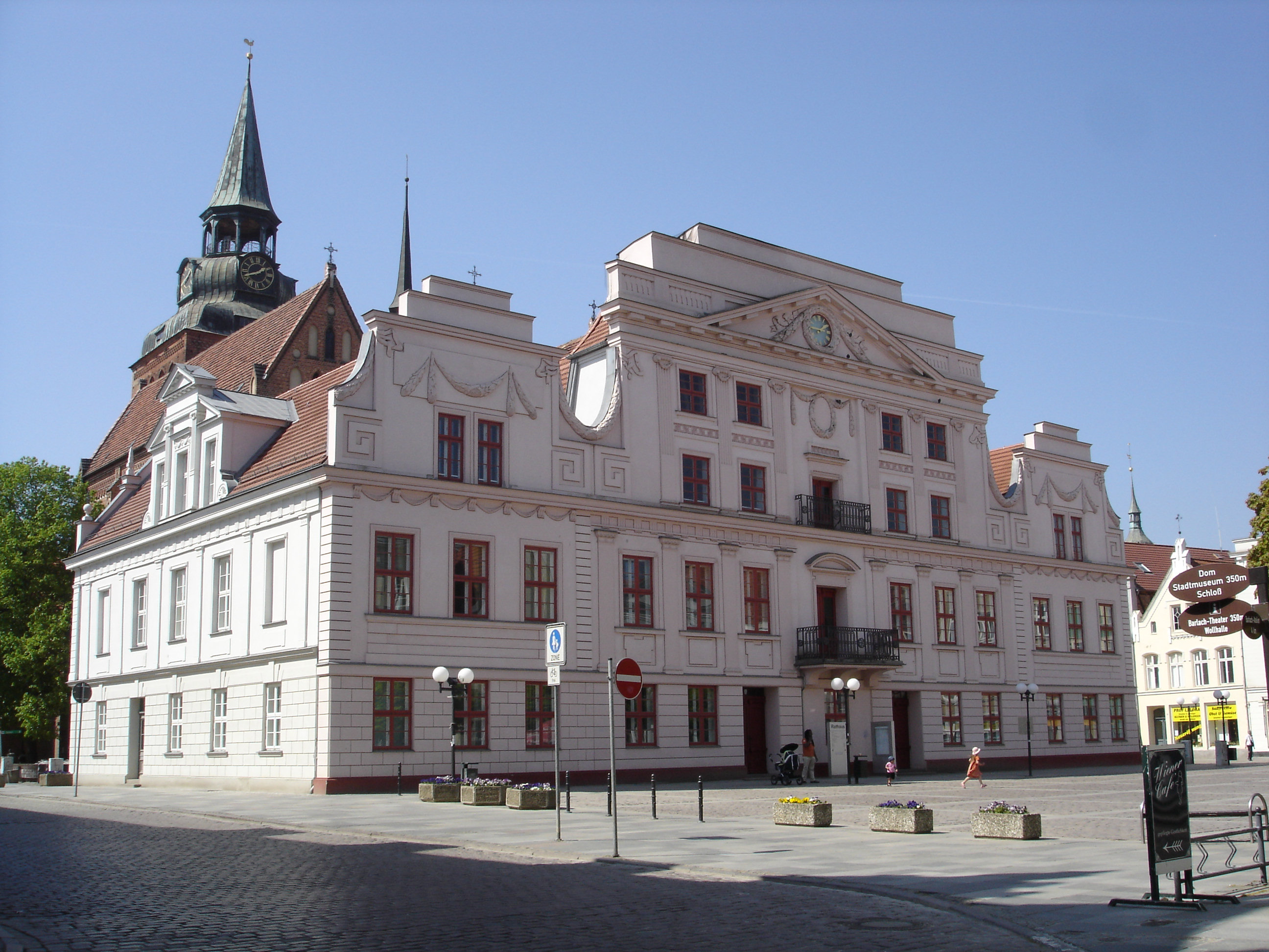 Rathaus Güstrow / Townhall Güstrow